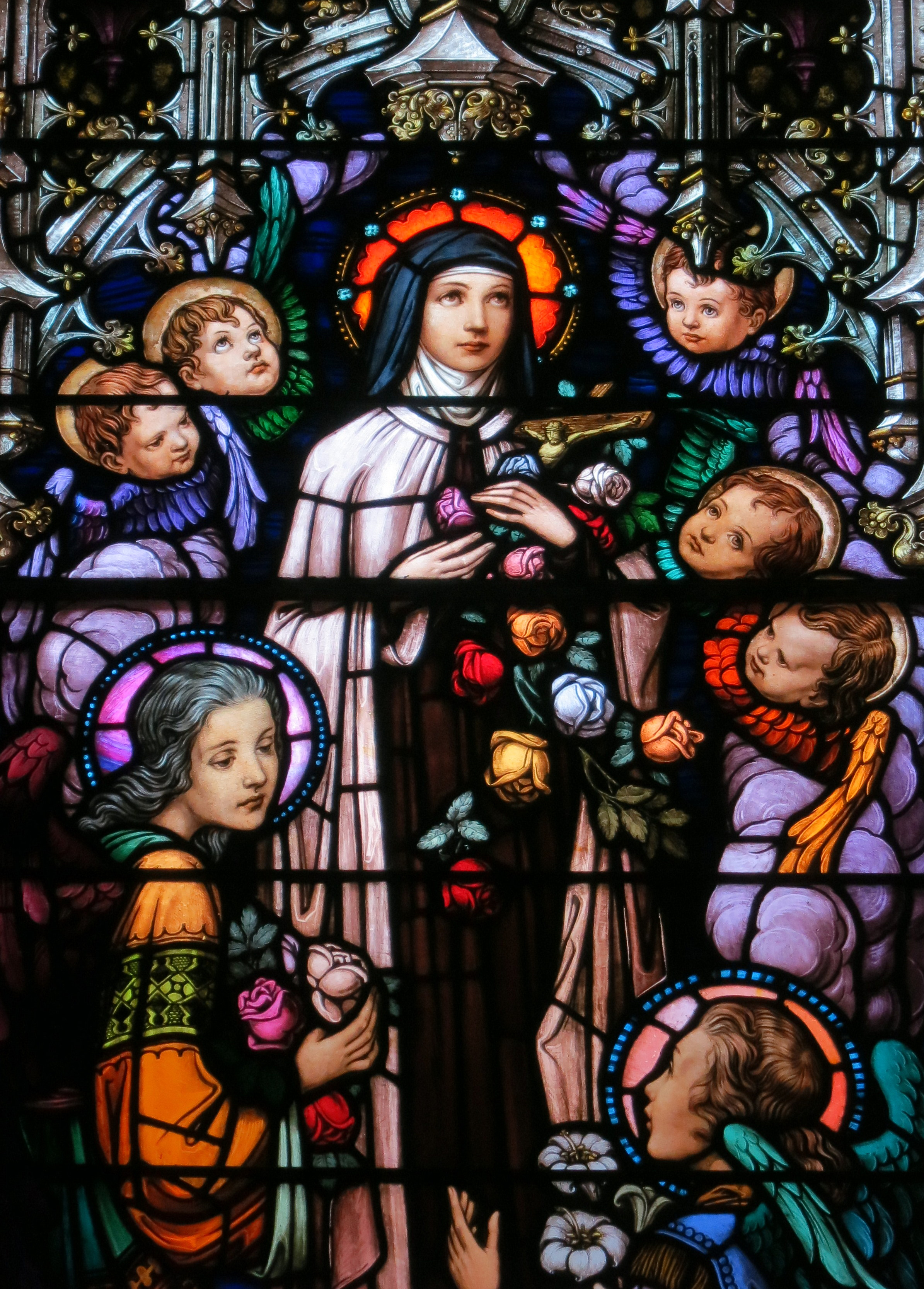 Saint Mary of the Assumption Church (Columbus, Ohio) - stained glass, Saint Thérèse of Lisieux, detail